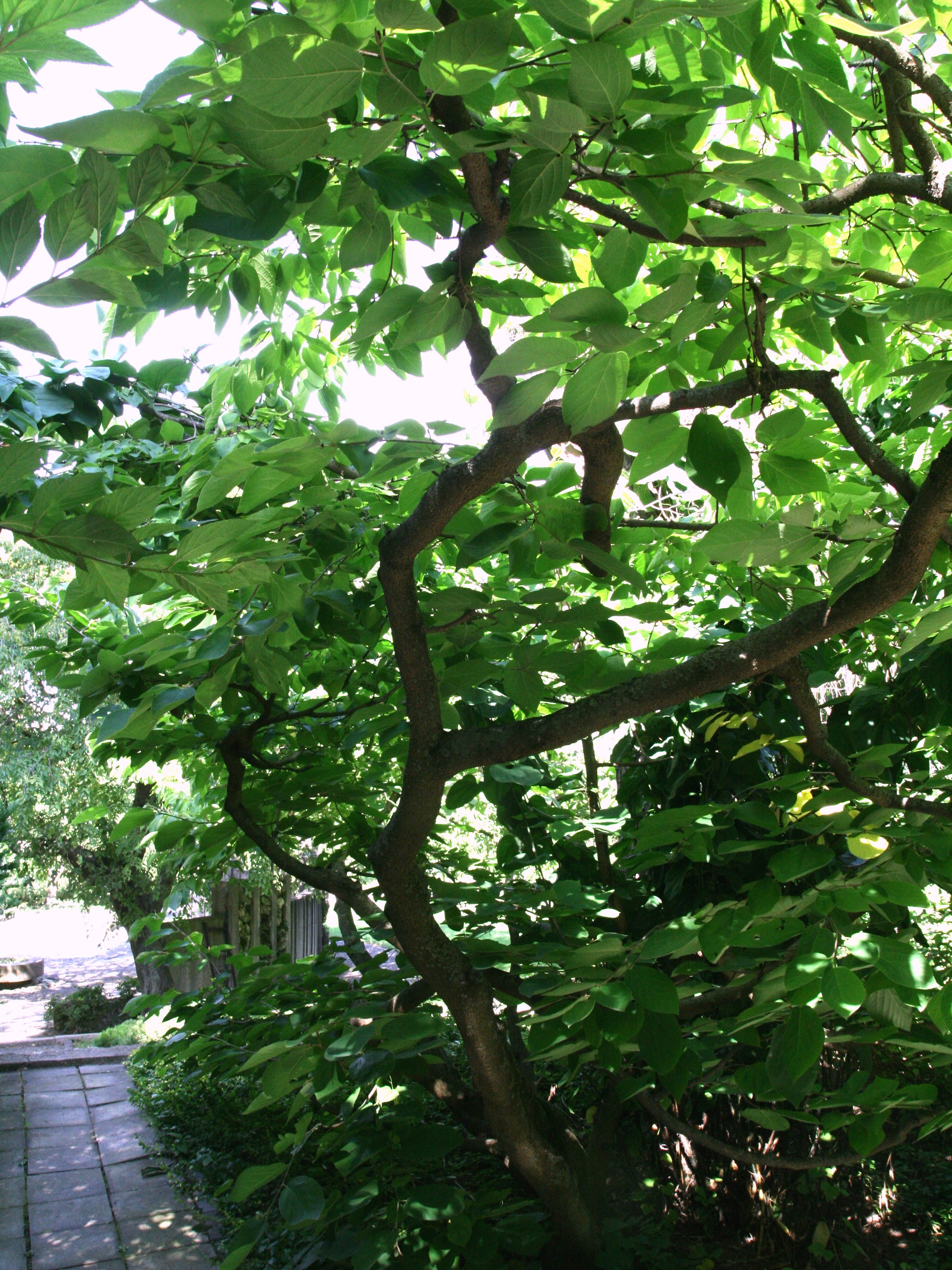 Sinowilsonia henryi, Arboretum in Brno, Czech Republic